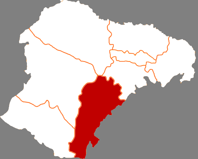 Locator map of Uxin Banner in Ordos City, Inner Mongolia, China